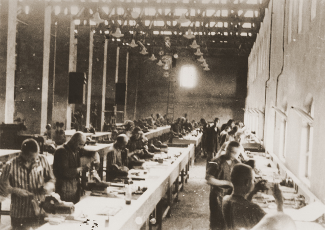 Prisoners at forced labor building airplane parts at the Siemens factory in the Bobrek labor camp, a sub-camp of Auschwitz.